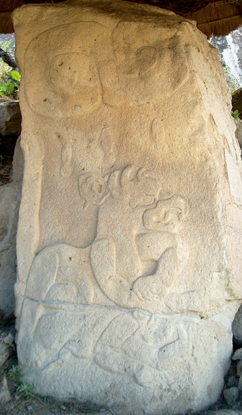 Monument 31, a stela at Chalcatzingo - showing a zoomorph beaked feline on top of a man